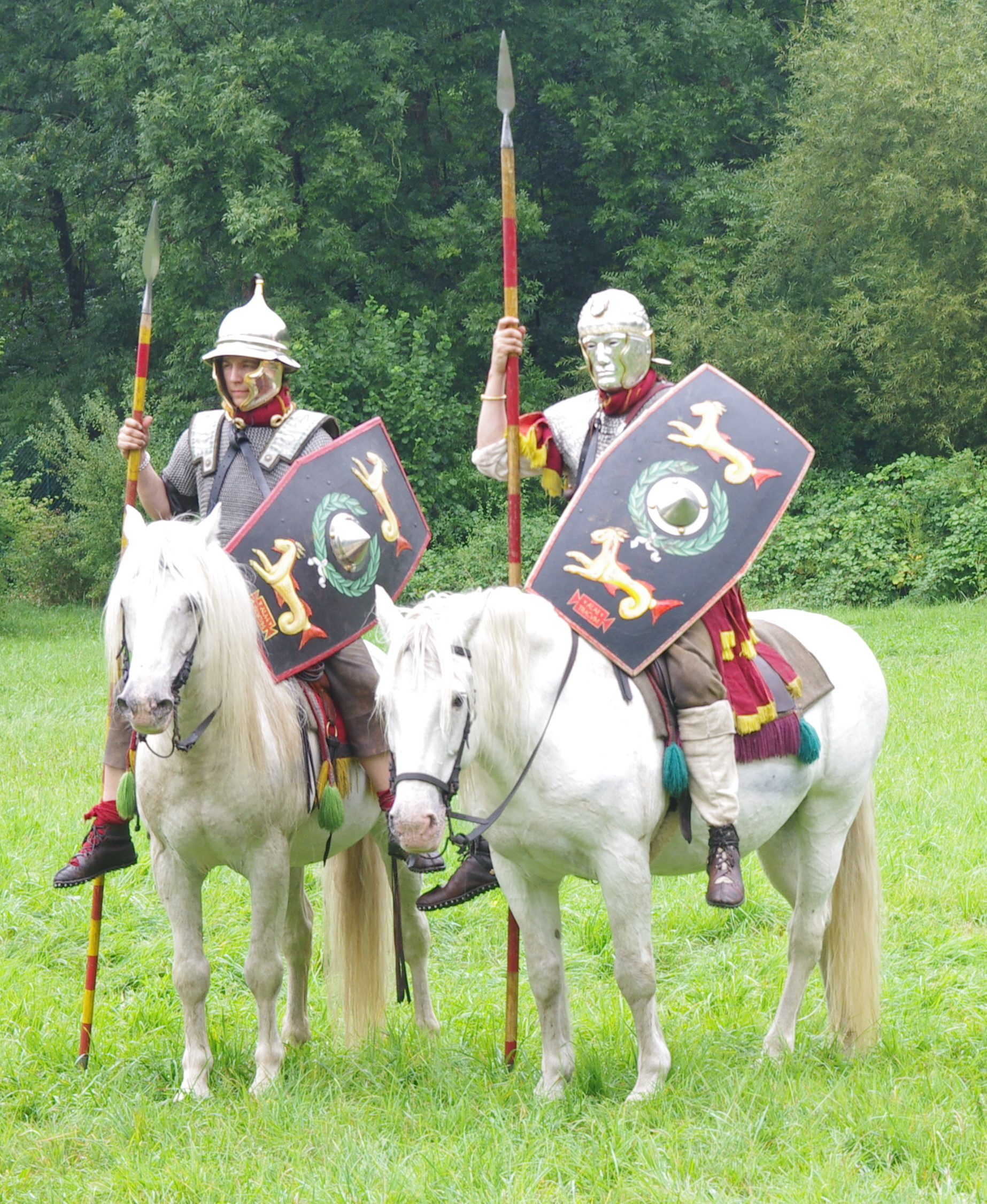 Roman Cavalry Reenactment - Roman Festival at Augusta Raurica - August 2013-069